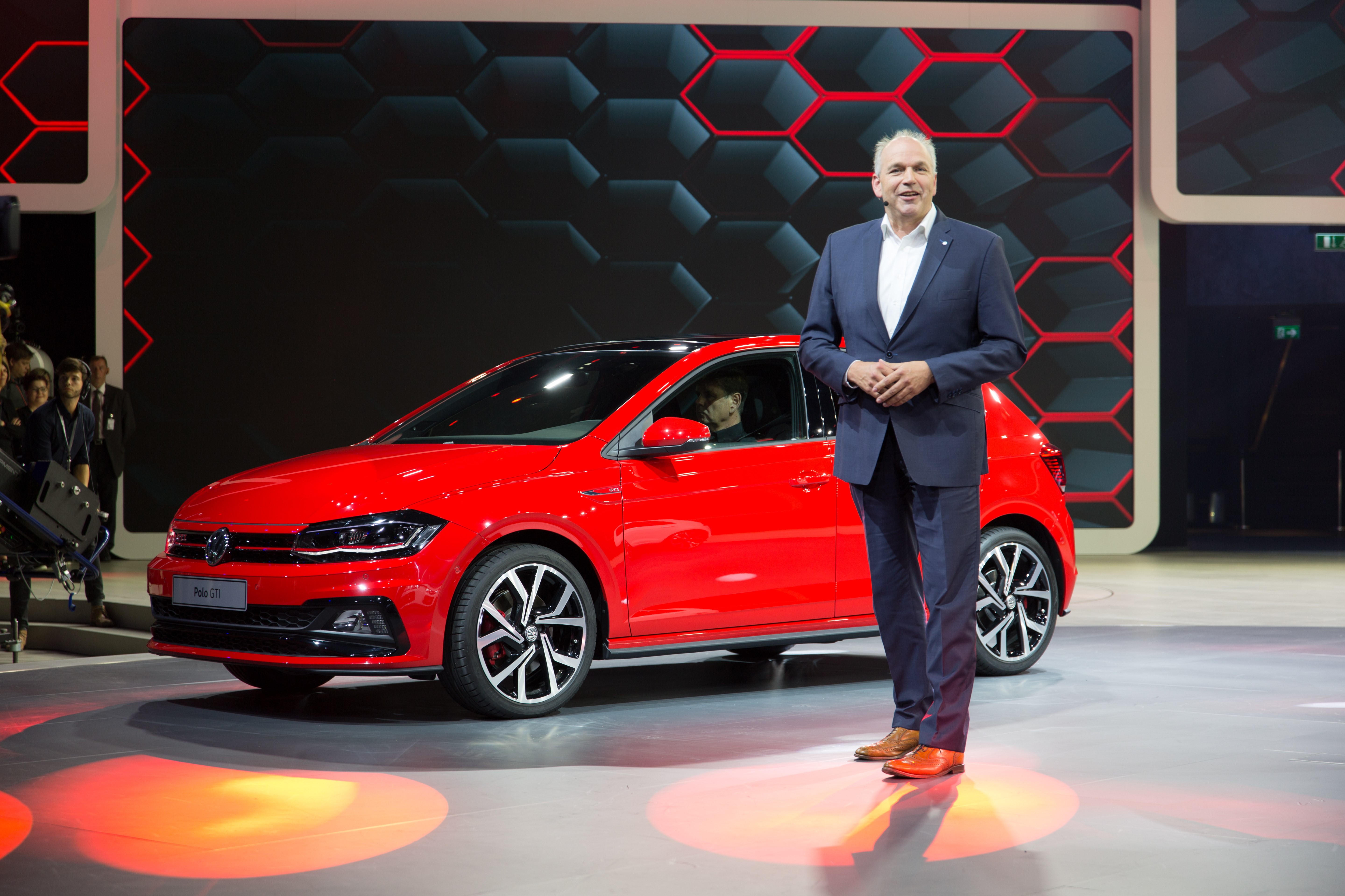 Jürgen Stackmann presents the new Volkswagen Polo GTI at IAA 2017